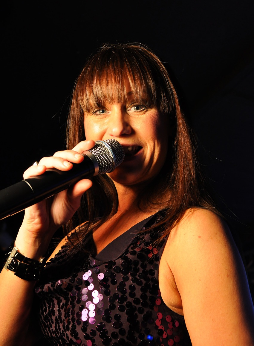 Singer Erica Sjöström performing at Äpplet, Umeå, Sweden.